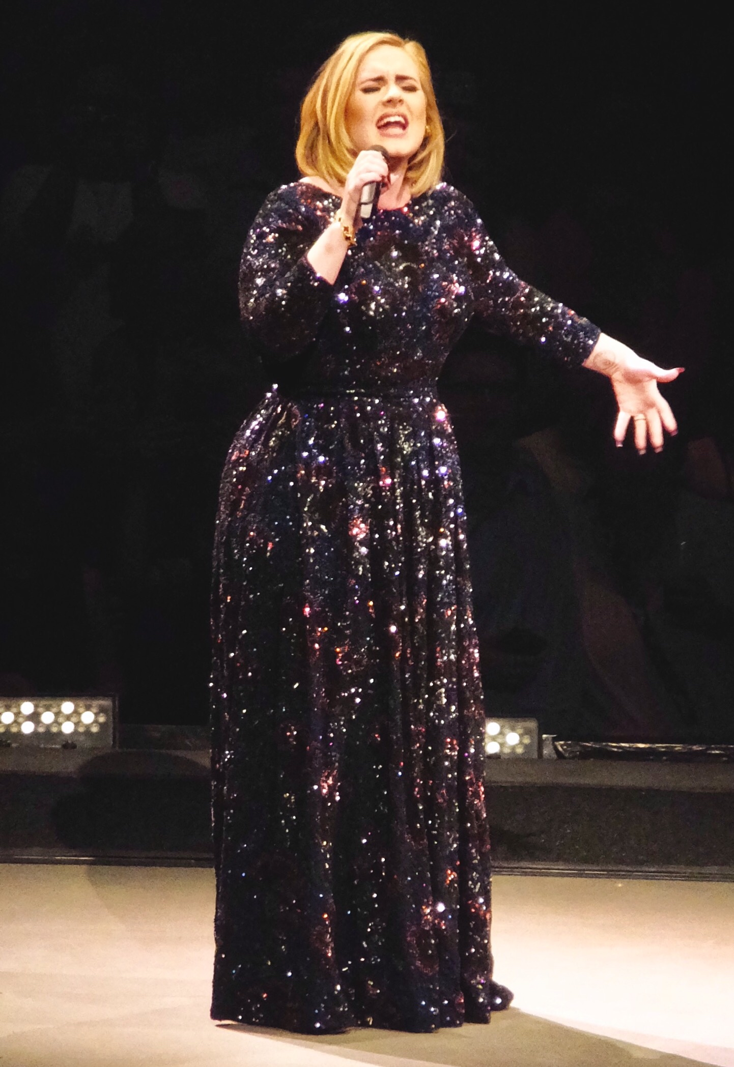 Adele performing Hello during her first North American show in 5 years